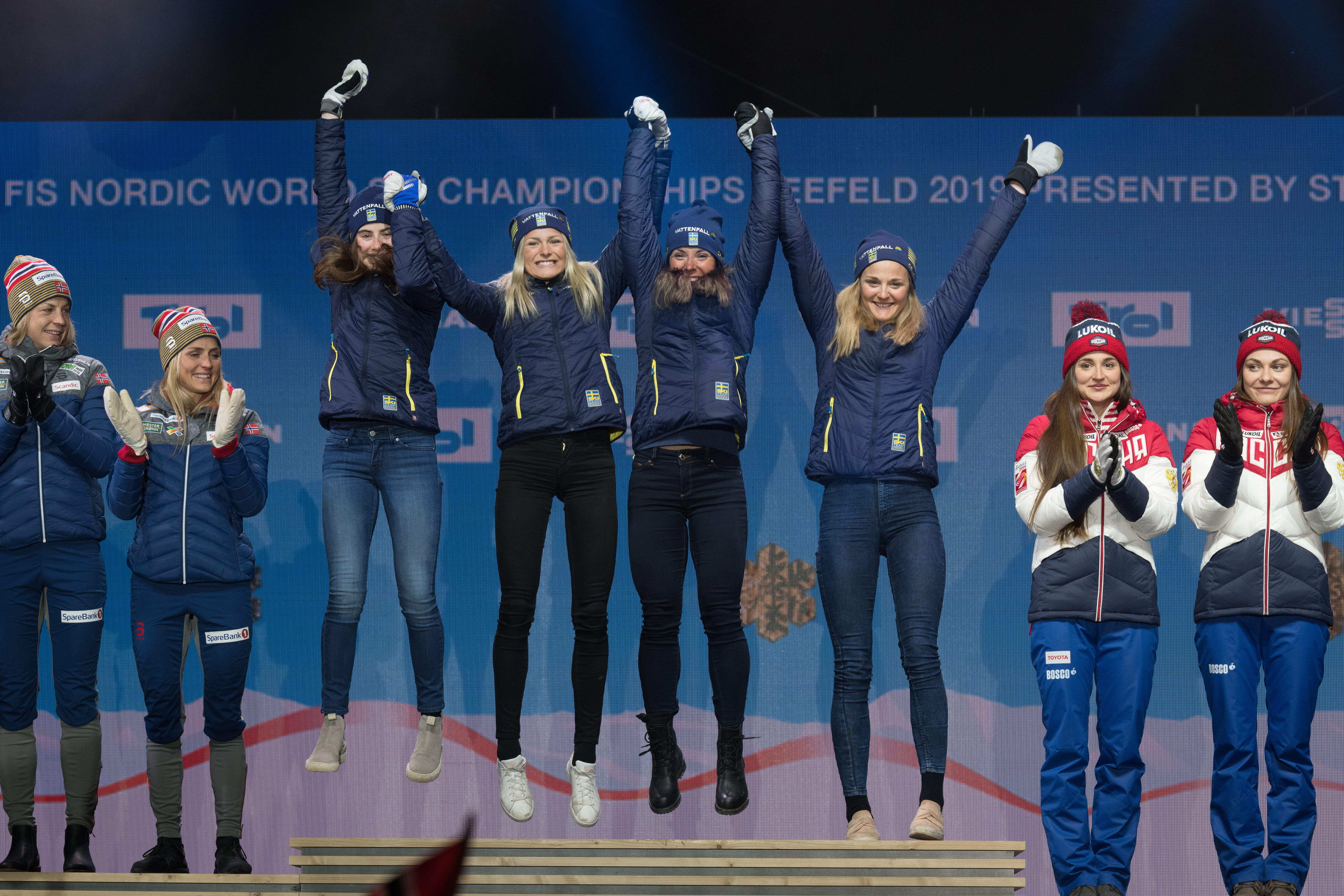 FIS Nordic Wolrd Ski Championships Seefeld 2019 - Medal Ceremony at the Medal Plaza. Picture shows Astrid Jacobsen (NOR), Therese Johaug (NOR), Ebba Andersson (SWE), Frida Karlsson (SWE), Charlotte Kalla (SWE), Stina Nilsson (SWE), Yuliya Belorukova (RUS), and Anastasia Sedova (RUS).